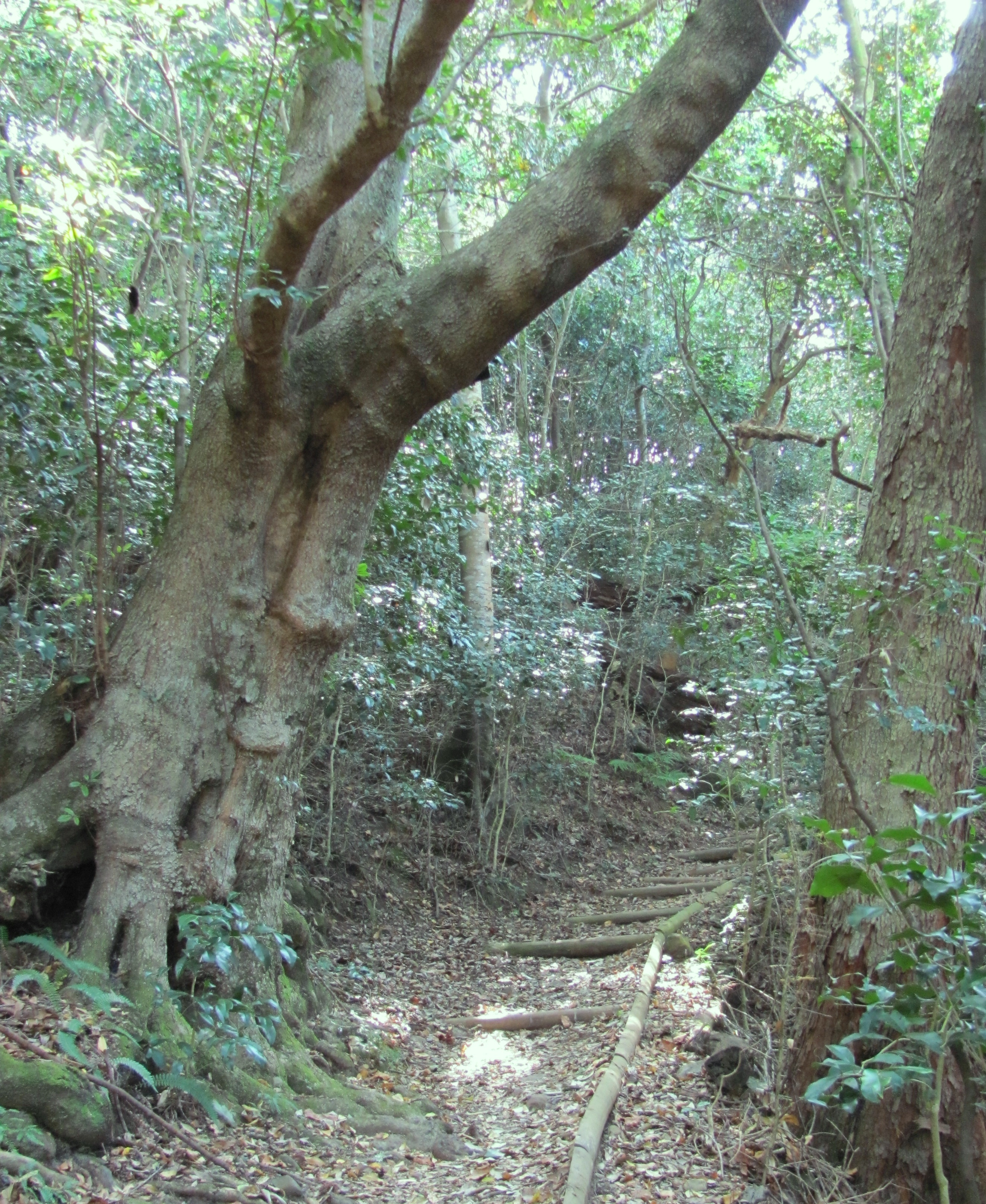 Large Red Alder or Butterspoon trees in indigenous forest ravine above Cecilia Park, Cape Town, South Africa IsiZulu: umLulama